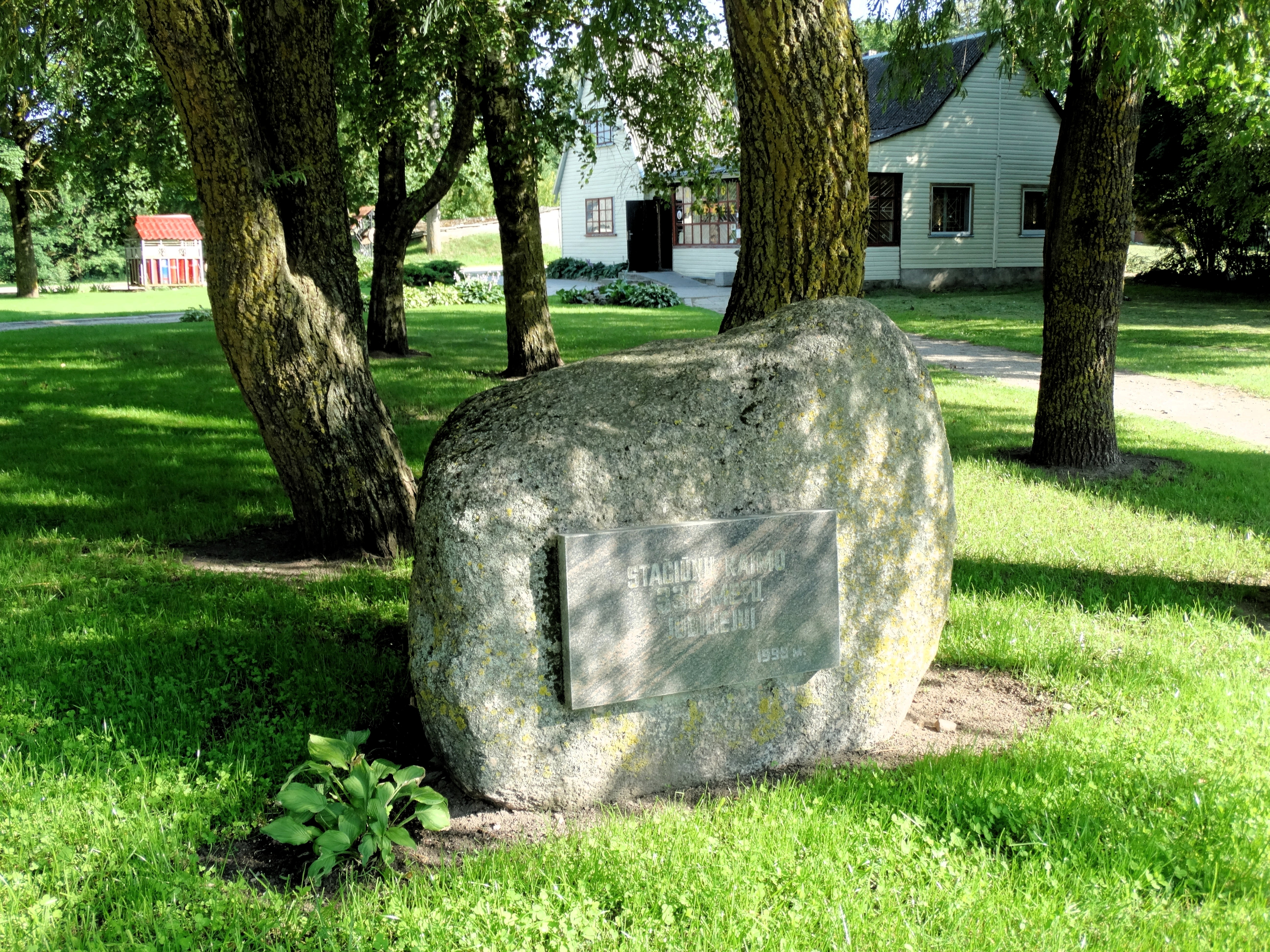 Stačiūnai, Pakruojis District, Lithuania